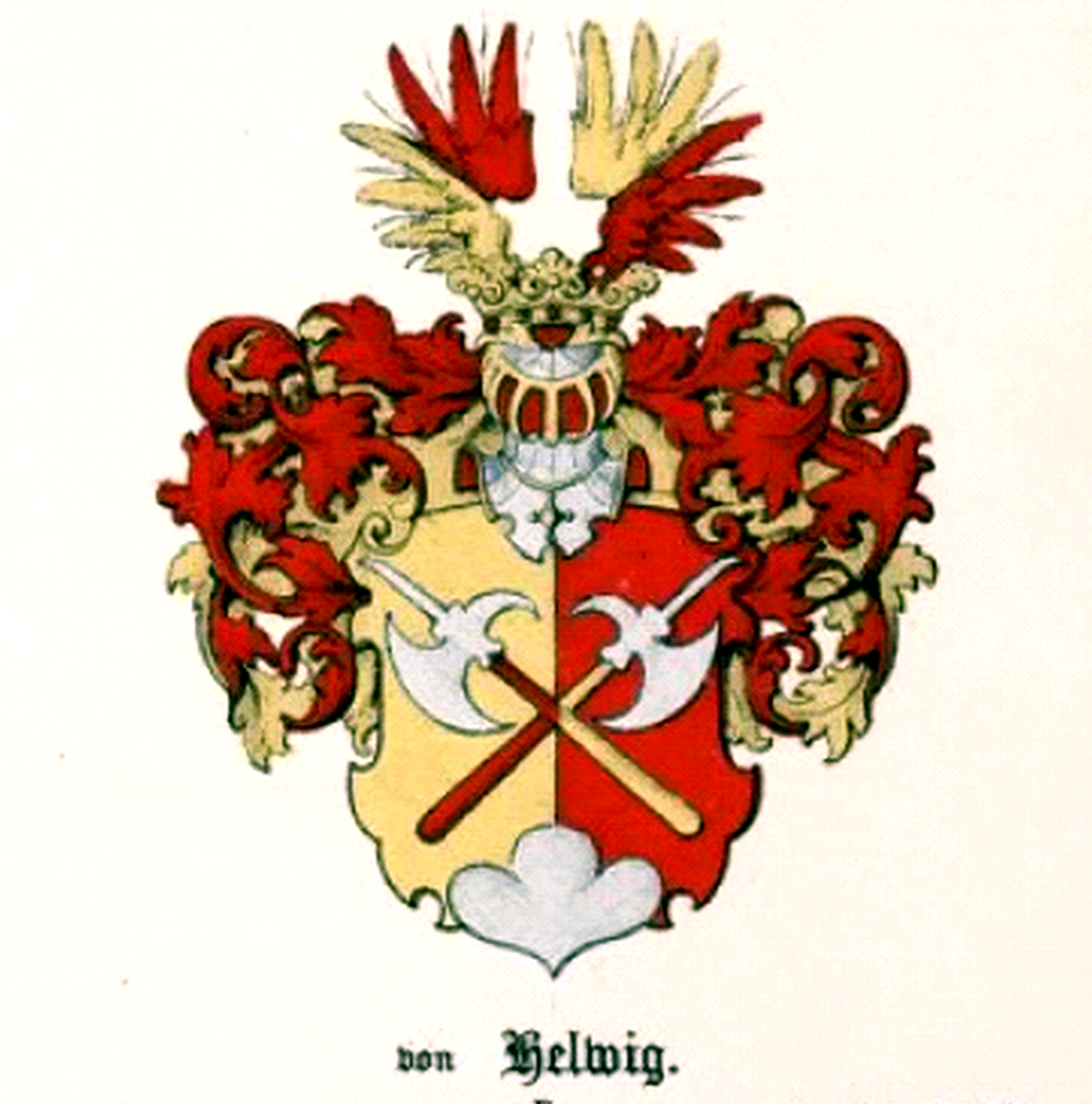 Coat of Arms of Helwig family